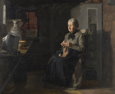 Elizabeth Coffin, The Window Towards the Sea - Phebe Folger Pitman, 1886, oil on canvas, 25 1/8 x 30 1/4 in., Nantucket Historical Association